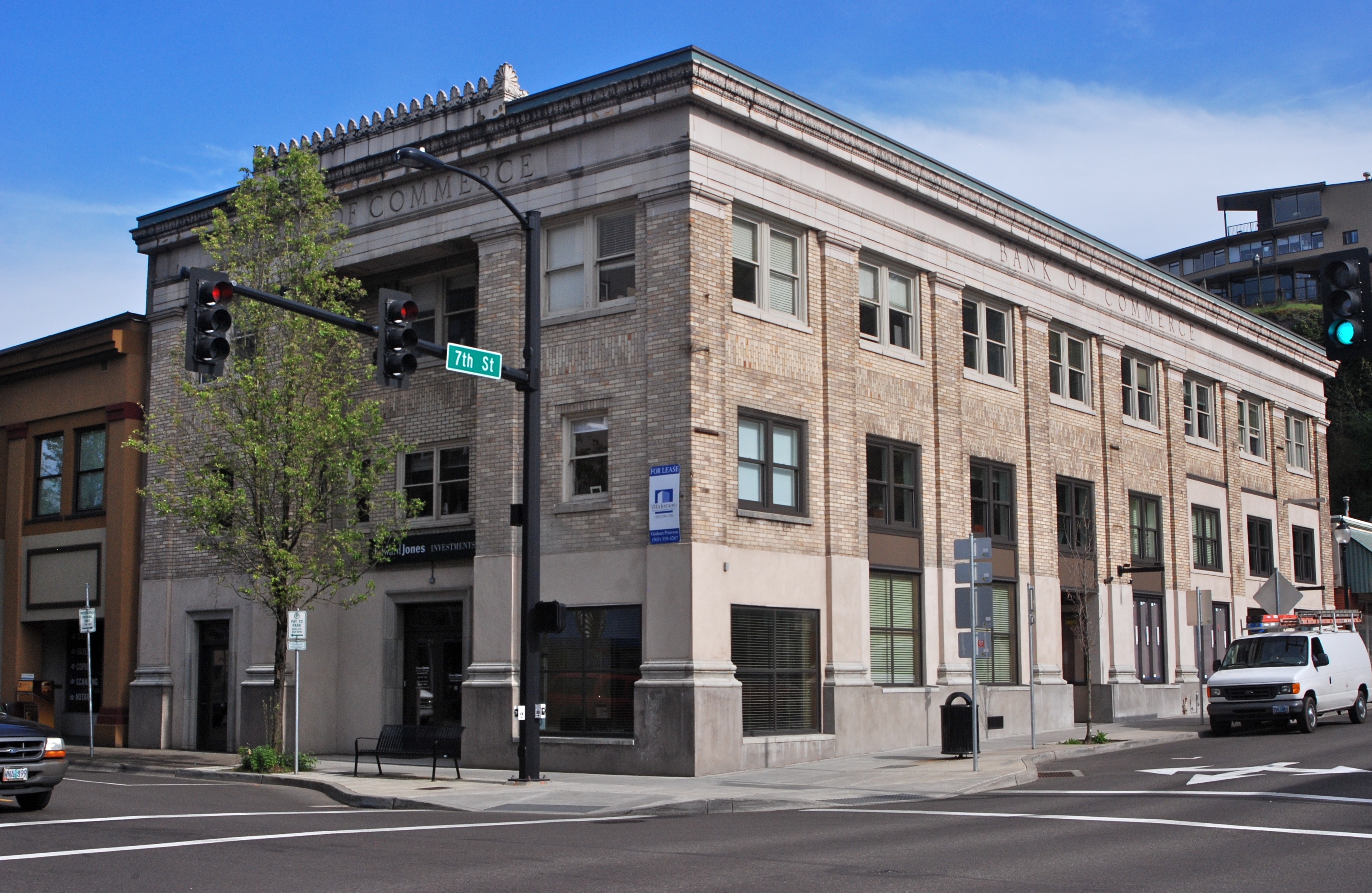 The Bank of Commerce building in Oregon City, Oregon. Located at 7th & Main in downtown Oregon City, the building is no longer used as a bank.